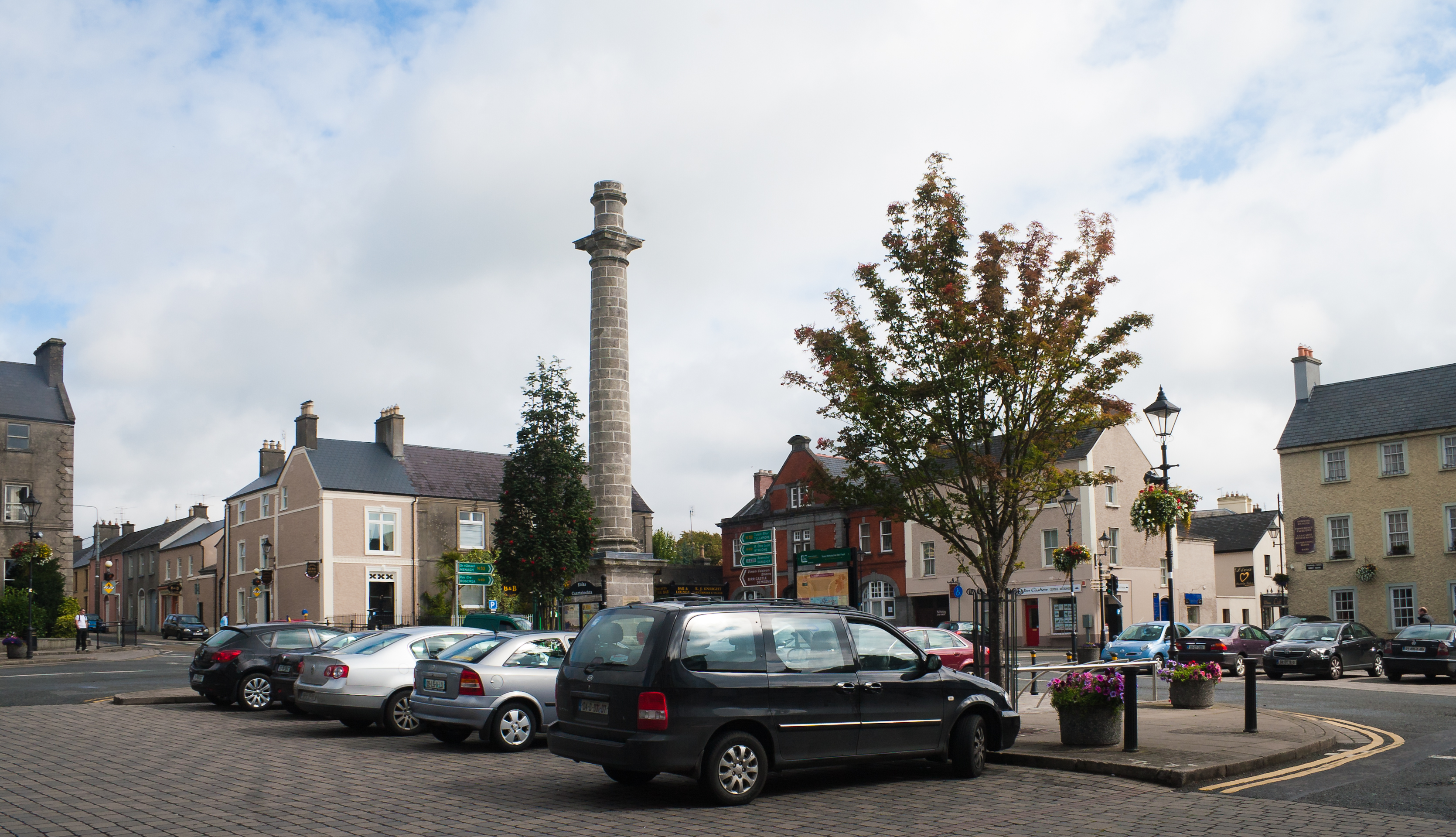 Emmet Square in Birr.